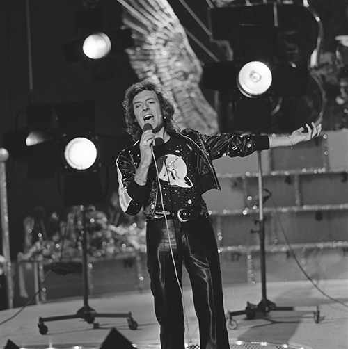 Allan Clarke in AVRO's TopPop (Dutch television show) in 1974